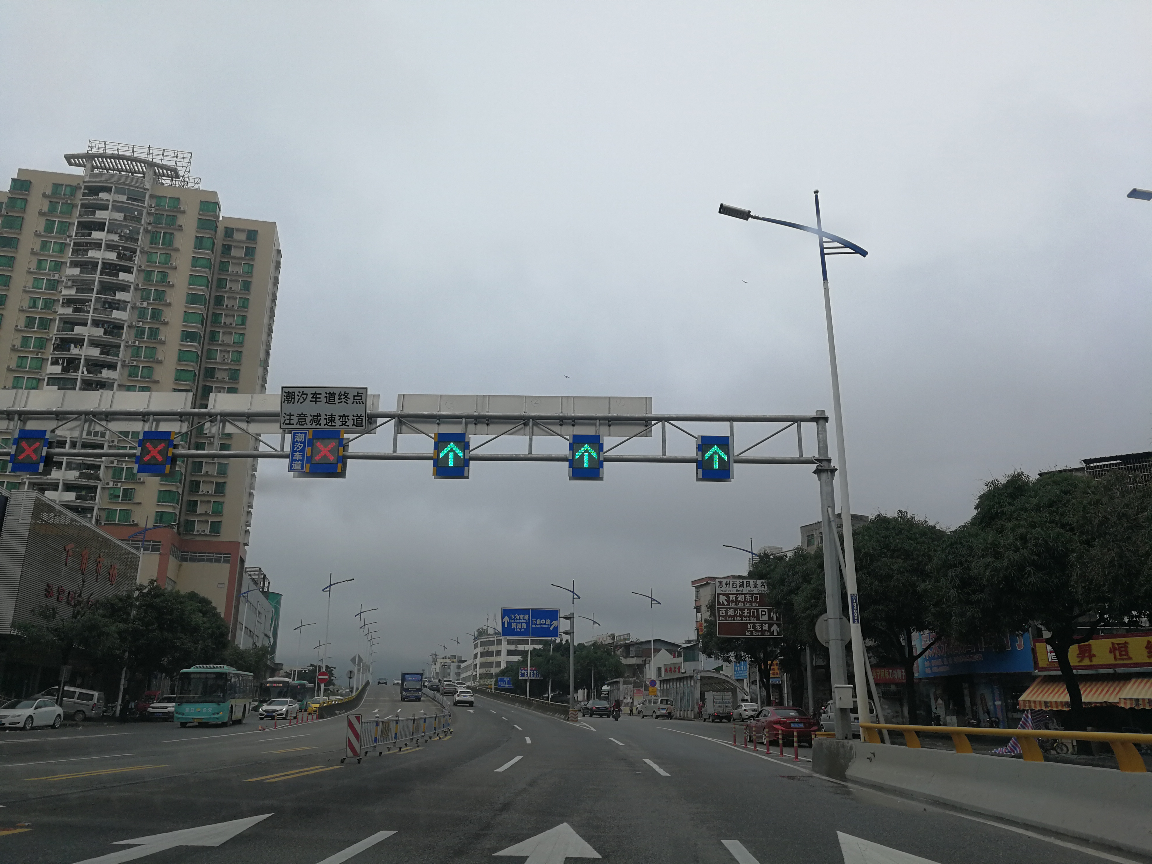 A view of Xiajiao South Road Viaduct from Hopson Bridge.